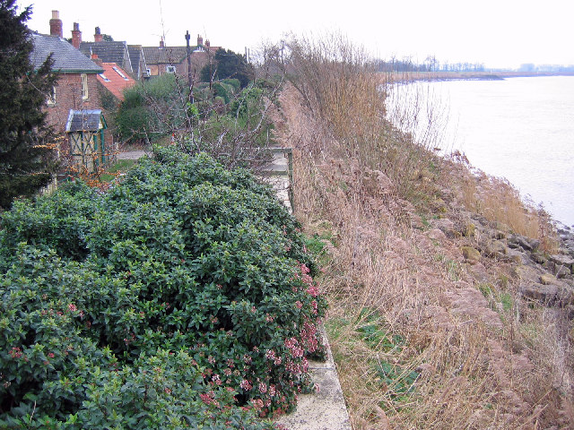 Saltmarshe, East Riding of Yorkshire, England.View looking east along the River Ouse.